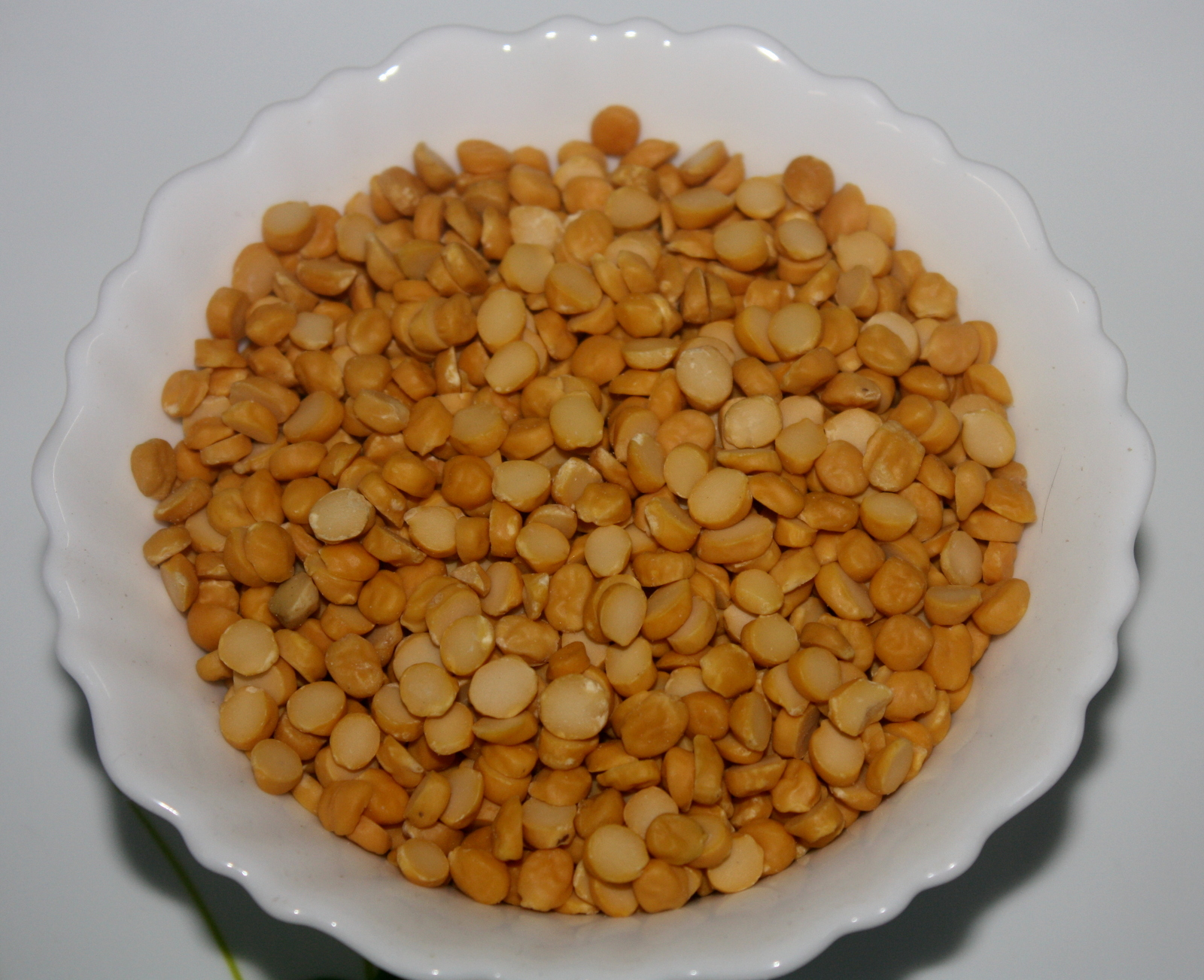 Bengal gram, chickpea( ছোলার ডাল), Kolkata, West Bengal, India